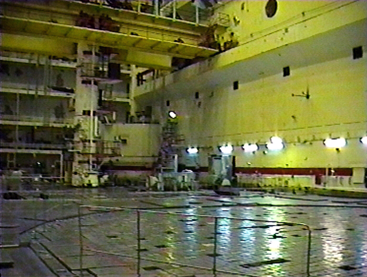 Chernobyl nuclear power plant, Reactor hall #1, Pripyat, Ukraine.